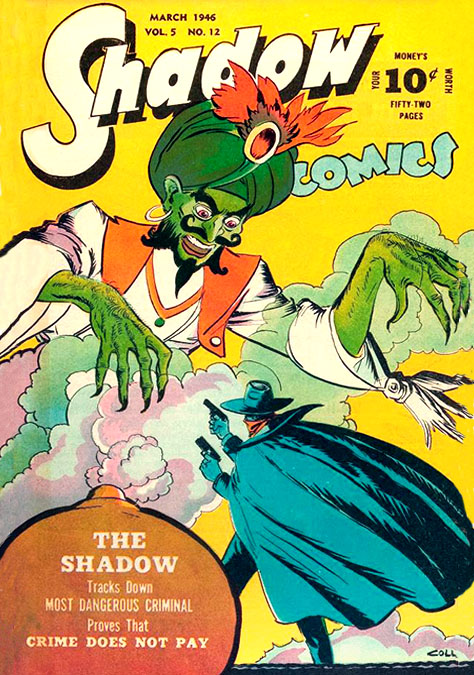 Shadow Comics, March 1946.